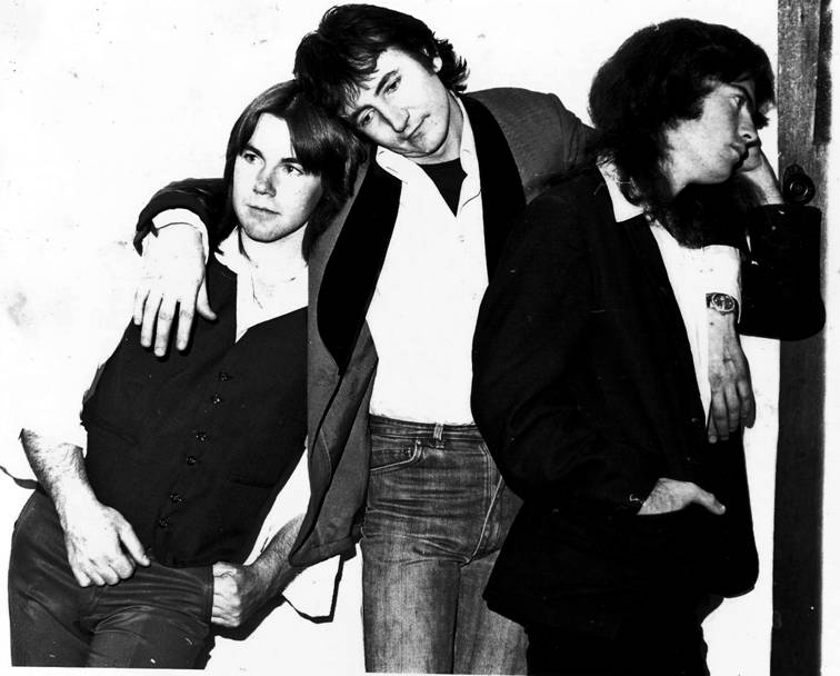 Switchblade